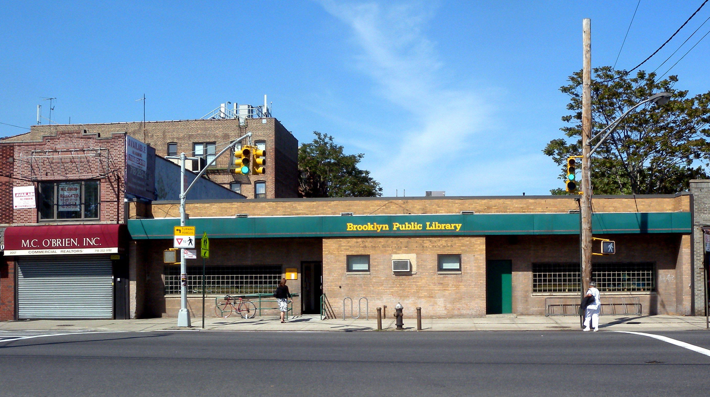 Looking northeast along Avenue P and across Flatbush Avenue at the Flatlands branch of BPL on a sunny early afternoon.